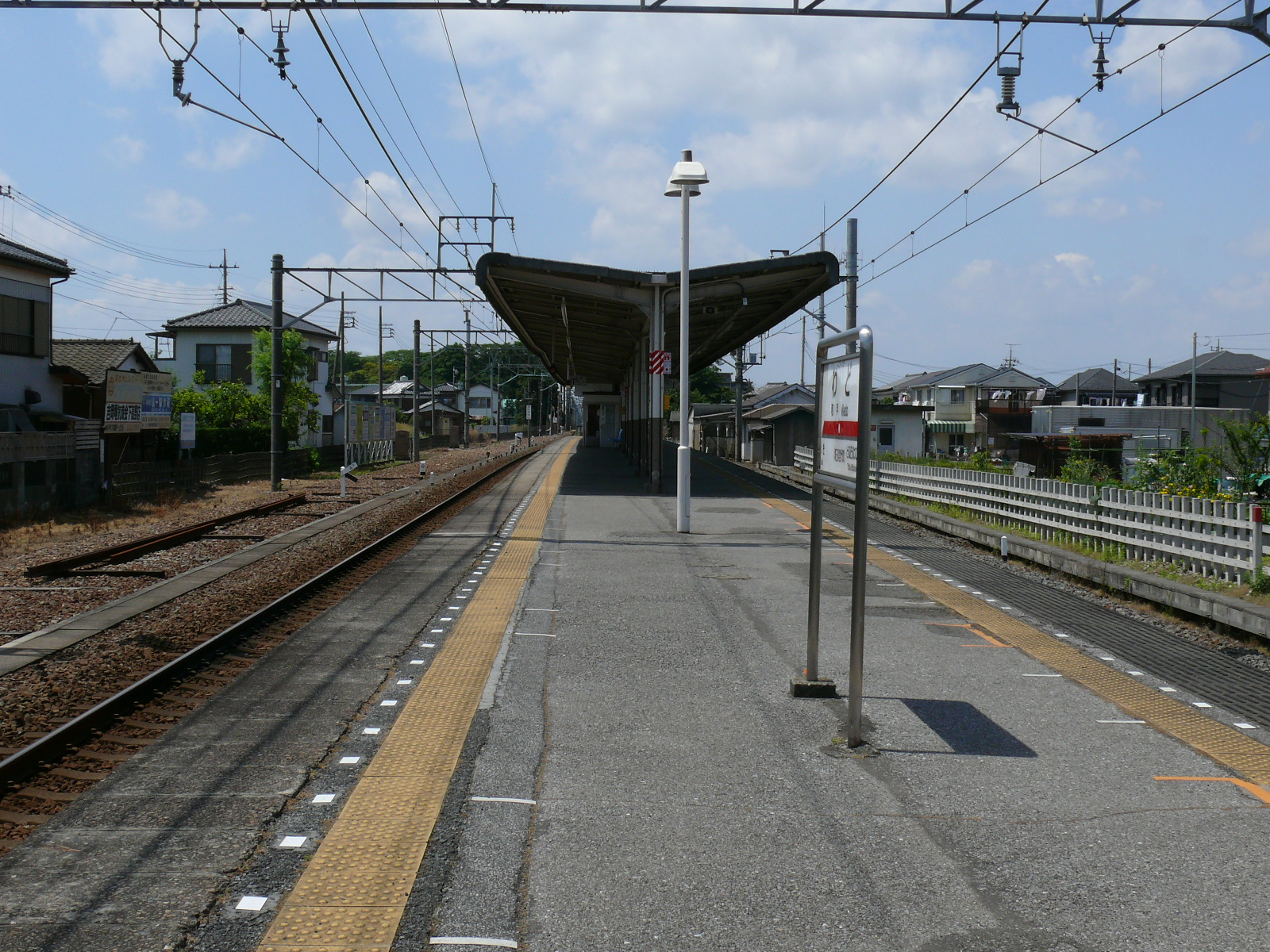 The platform at Wado Station on the Tobu Isesaki Line in Saitama Prefecture, Japan